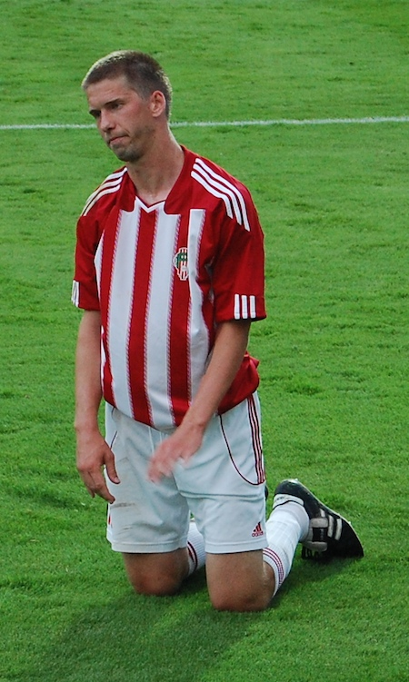 Richard Kalod of FK Viktoria Žižkov during a match against FC Hlučín